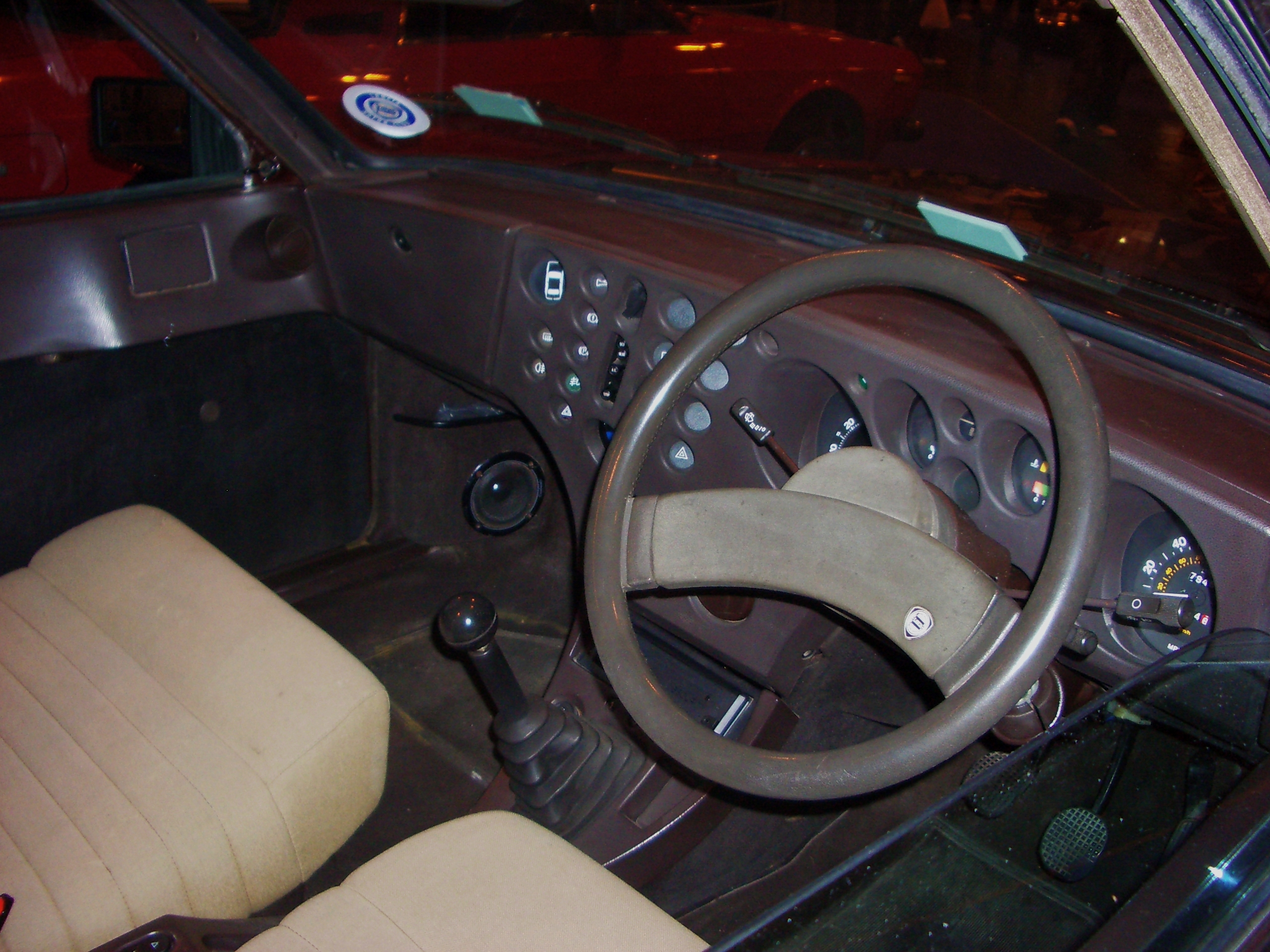 Interior showing dashboard used in the Lancia Trevi and the third series Lancia Beta Berlina.